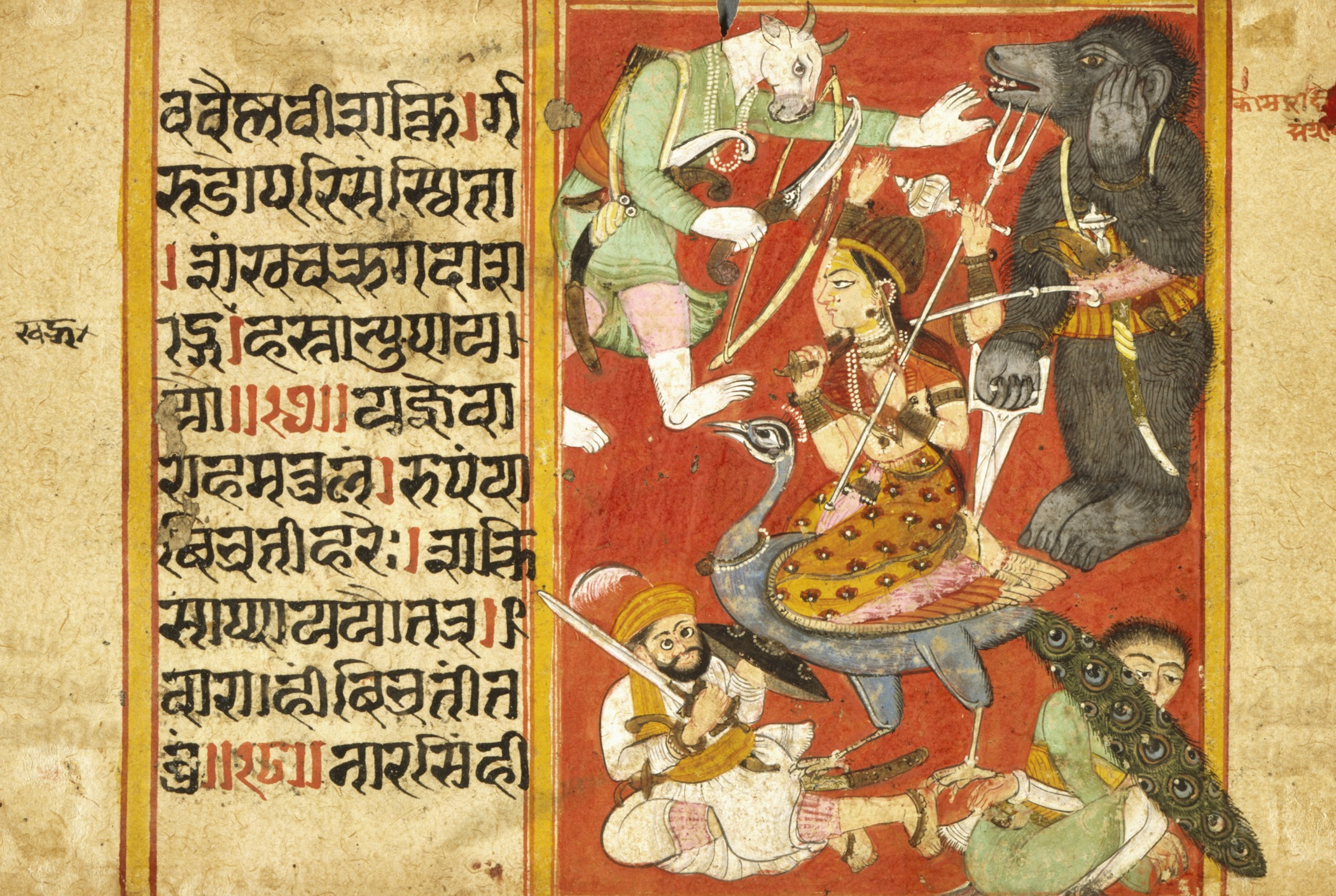 India, Rajasthan, Sirohi, 1675-1700 Drawings; watercolors Opaque watercolor and ink on paper Image: 5 1/8 x 6 3/8 in. (13.01 x 16.19 cm); Sheet: 5 1/8 x 8 1/8 in. (13.01 x 20.63 cm) Gift of Paul F. Walter (M.81.280.4a) South and Southeast Asian Art